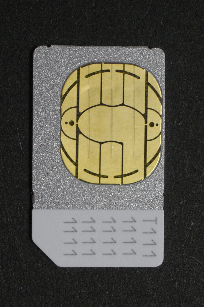 SoftBank 3G USIM Card